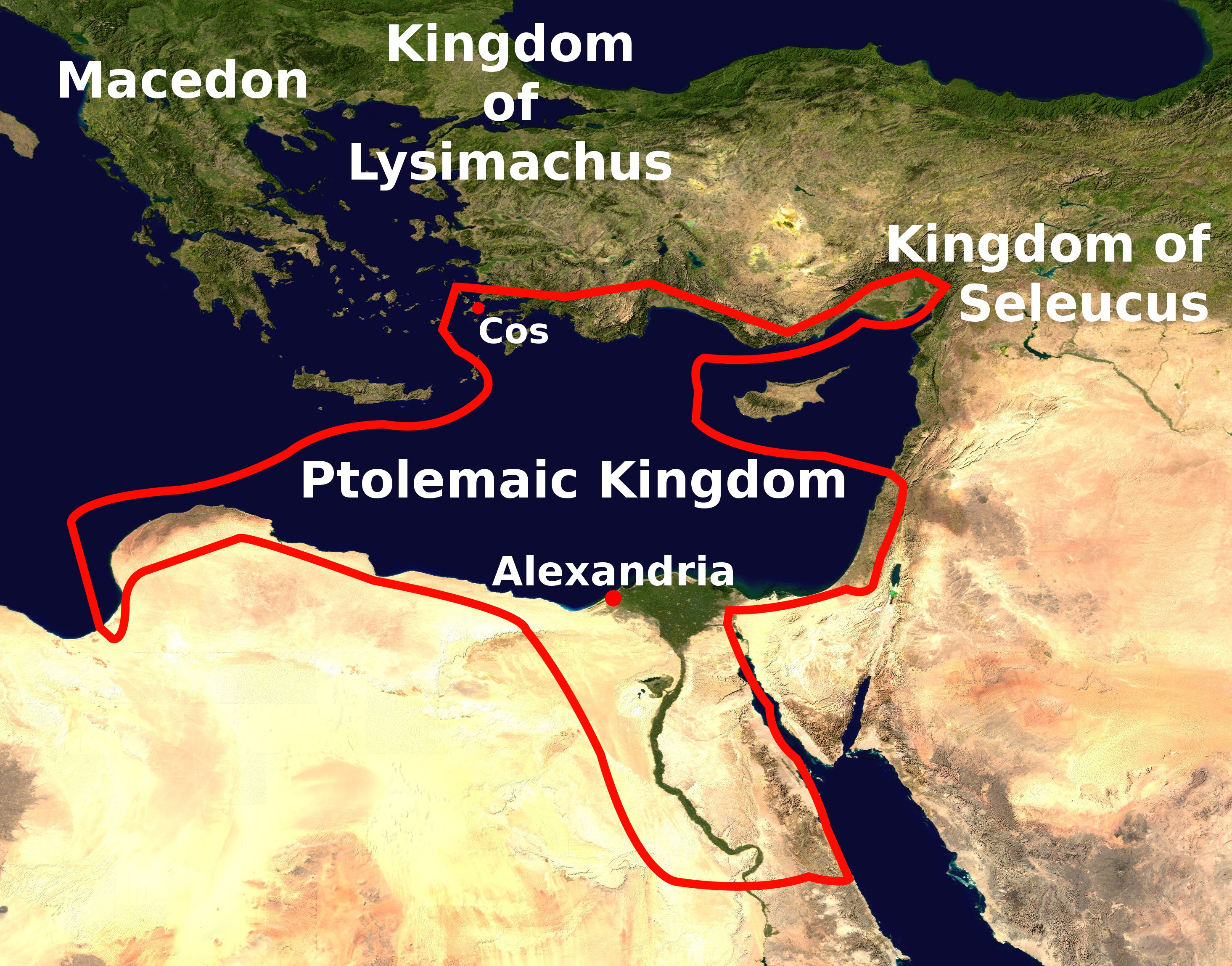 Ptolemaic Empire circa 300 BC, with Alexandria and Cos highlighted